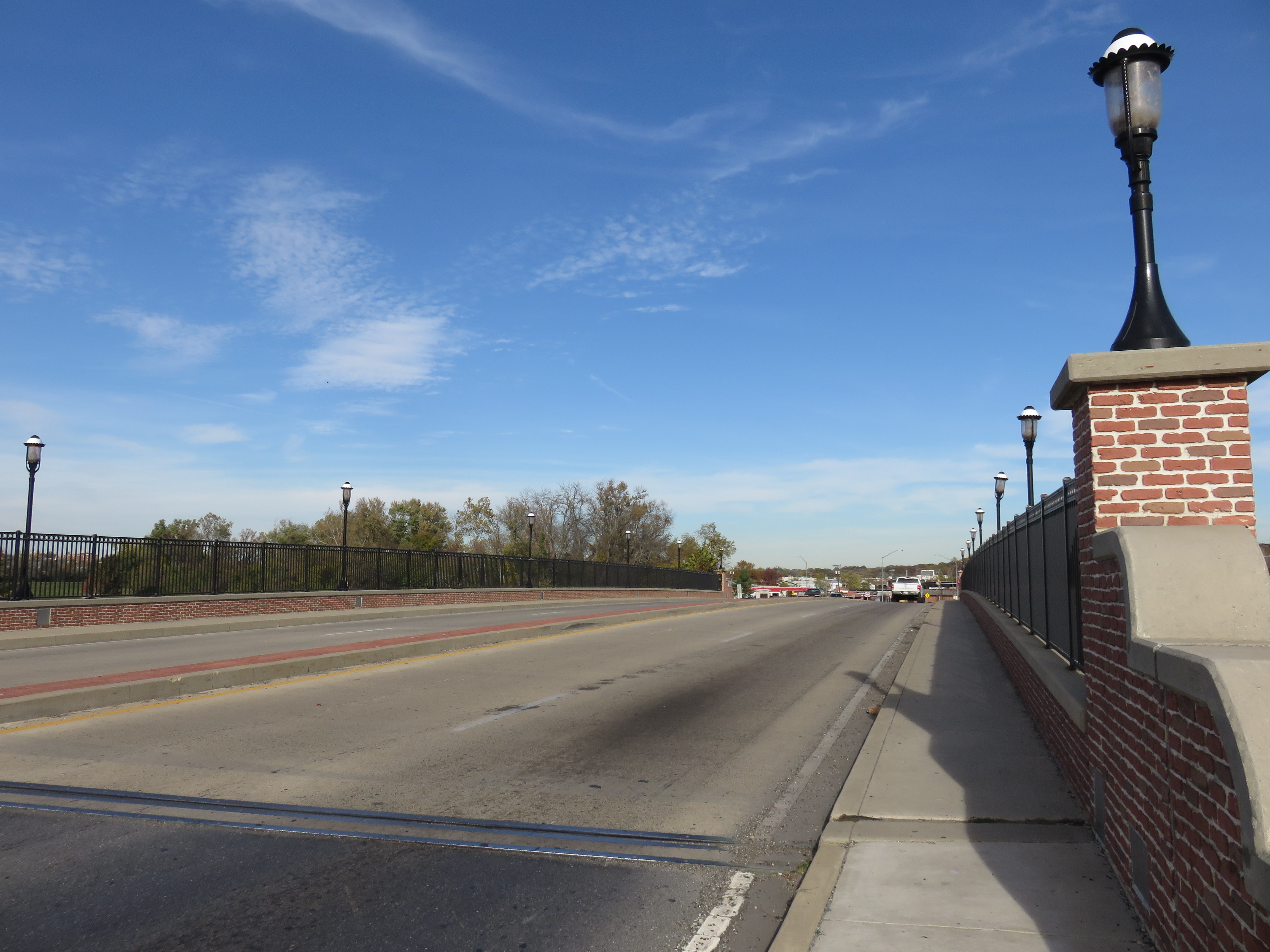 Deck of the Bladensburg Road Bridge over the Anacostia River in 2016